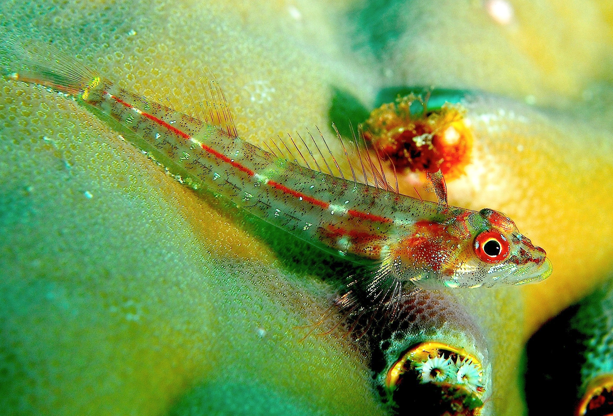 A Yellow-Lip Triplefin (Helcogramma gymnauchen) On Black, on the coast of southeastern Sulawesi